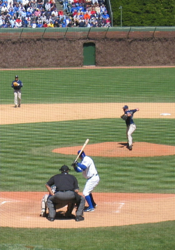 Wrigley Field April 13, 2005 Author: Konstantin Papushin